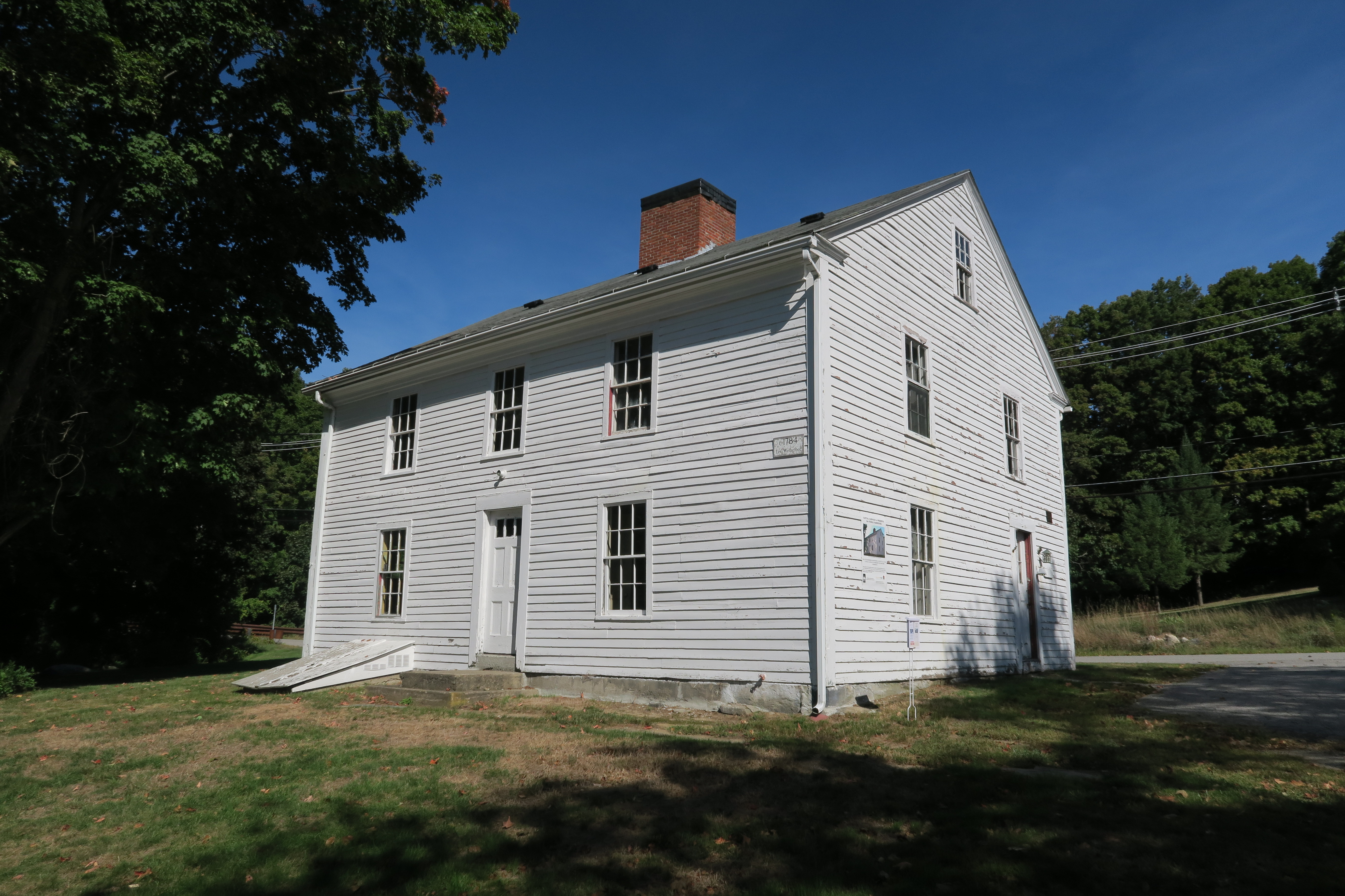 Levi Wetherbee Farm, house, Boxborough Massachusetts